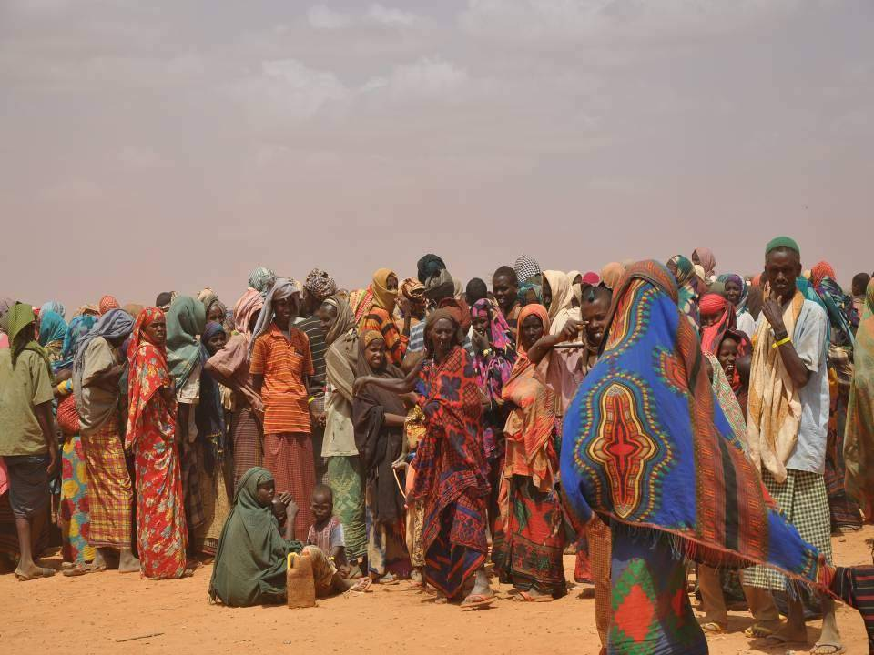 People displaced by drought in Somalia arrive at the Dolo Ado camp in neighbouring Ethiopia and queue to be registered by the aid agencies running the camp. To find out how the UK is helping people affected by the drought in Ethiopia, Somalia and Kenya, visit